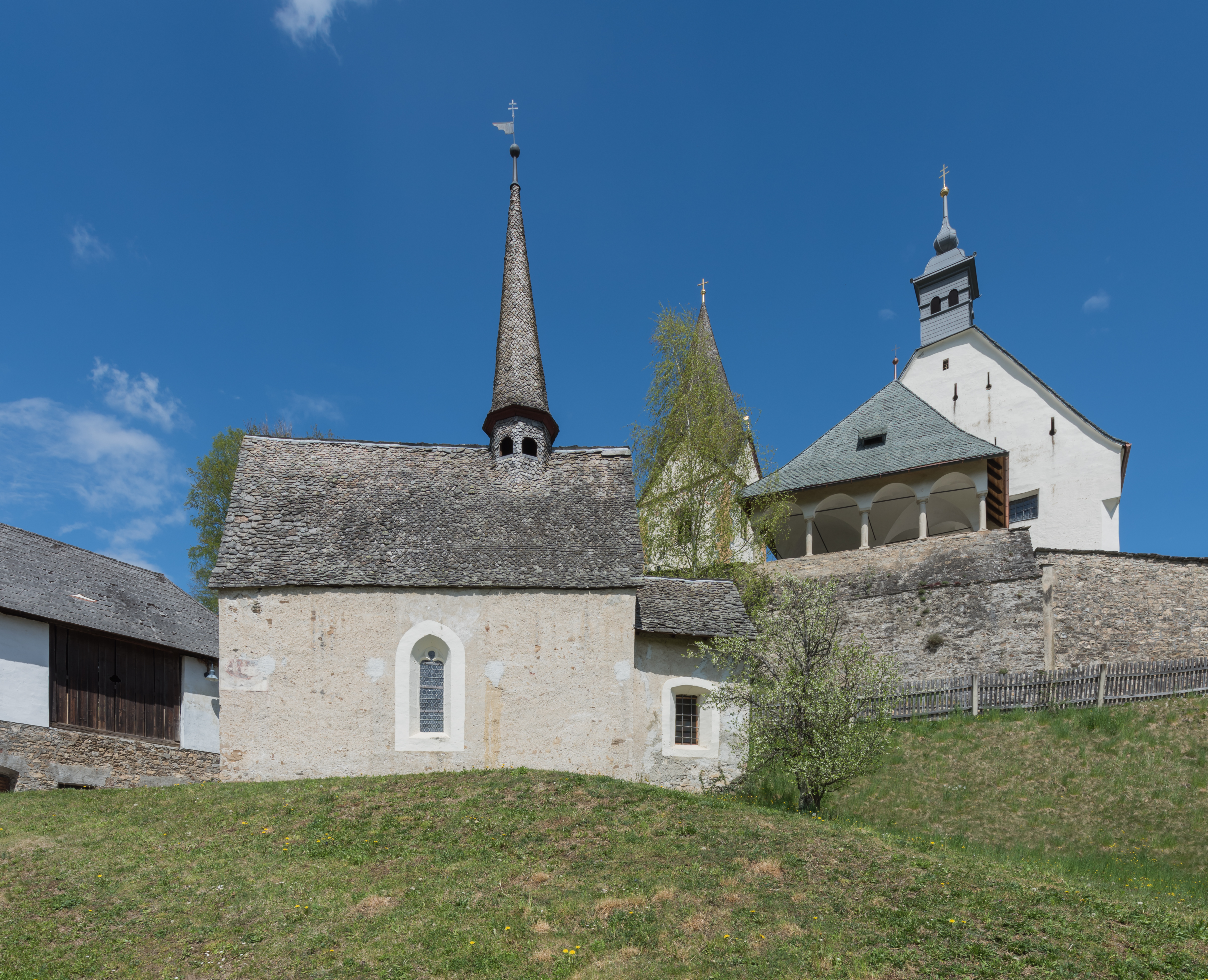 Chapel Saint Ulrich (left hand), parish and collegiate church Saint John Baptist (right hand) in Kraig, municipality Frauenstein, district Sankt Veit an der Glan, Carinthia, Austria, EU